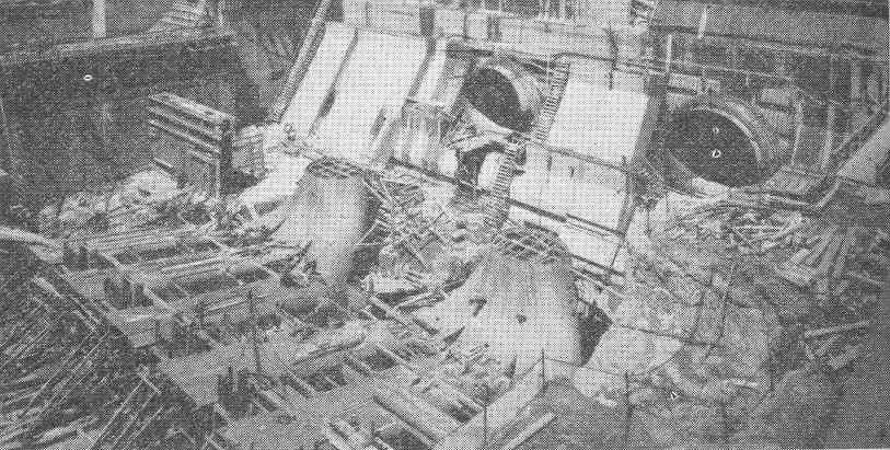 Construction work at Norris Dam, on the lower Clinch River in East Tennessee.